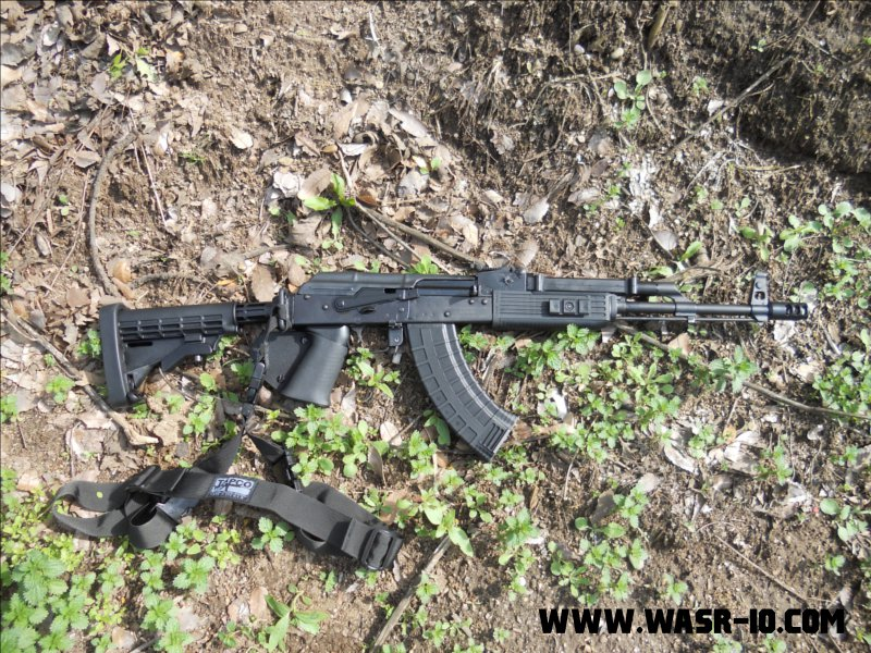 Century Arms GP WASR-10/63 modified for California 3 gun competition with aftermarket parts: Tapco Furniture, sling and magazine, Solar Tactical Muzzle Break and Kydex Grip (Needed For California Compliance). The collapsible stock is permanently fixed in place to comply with same. The after market fire selector switch (safety) is made by Krebs custom and features a BHO (Bolt Hold Open) slot, which allows the operator to lock the bolt back with the action open. The gas tube has been replaced by a Dublin AK Systems RCS (Ratchet Charging System), a non reciprocating front left charging handle.